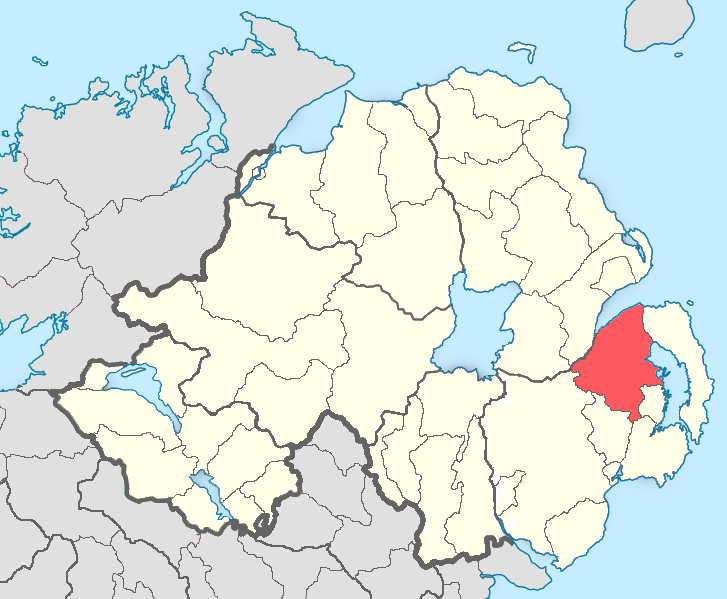 Castlereagh barony pre-split